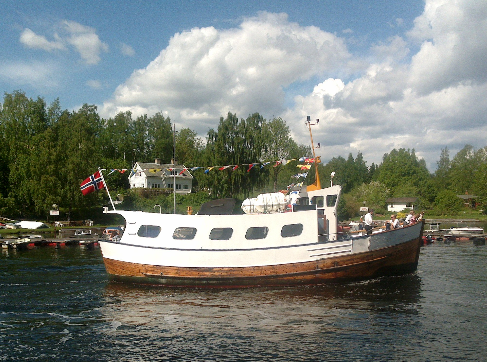 MS Rigfar, an old ferry in Asker, Norway (Oslo Fjord)